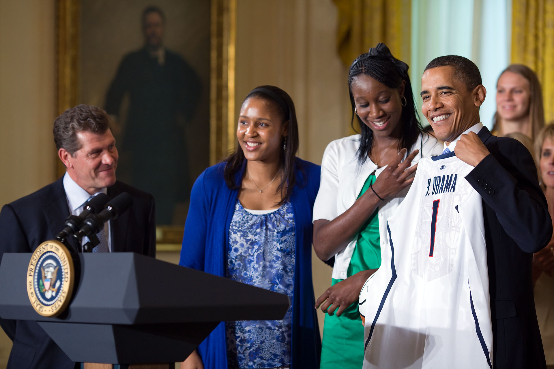 President Barack Obama is presented with a team jersey by Tina Charles, center, and Maya Moore, center- left, during a ceremony where he honored the 2010 NCAA champion University of Connecticut women's basketball team in the East Room of the White House. At left is head coach Geno Auriemma.